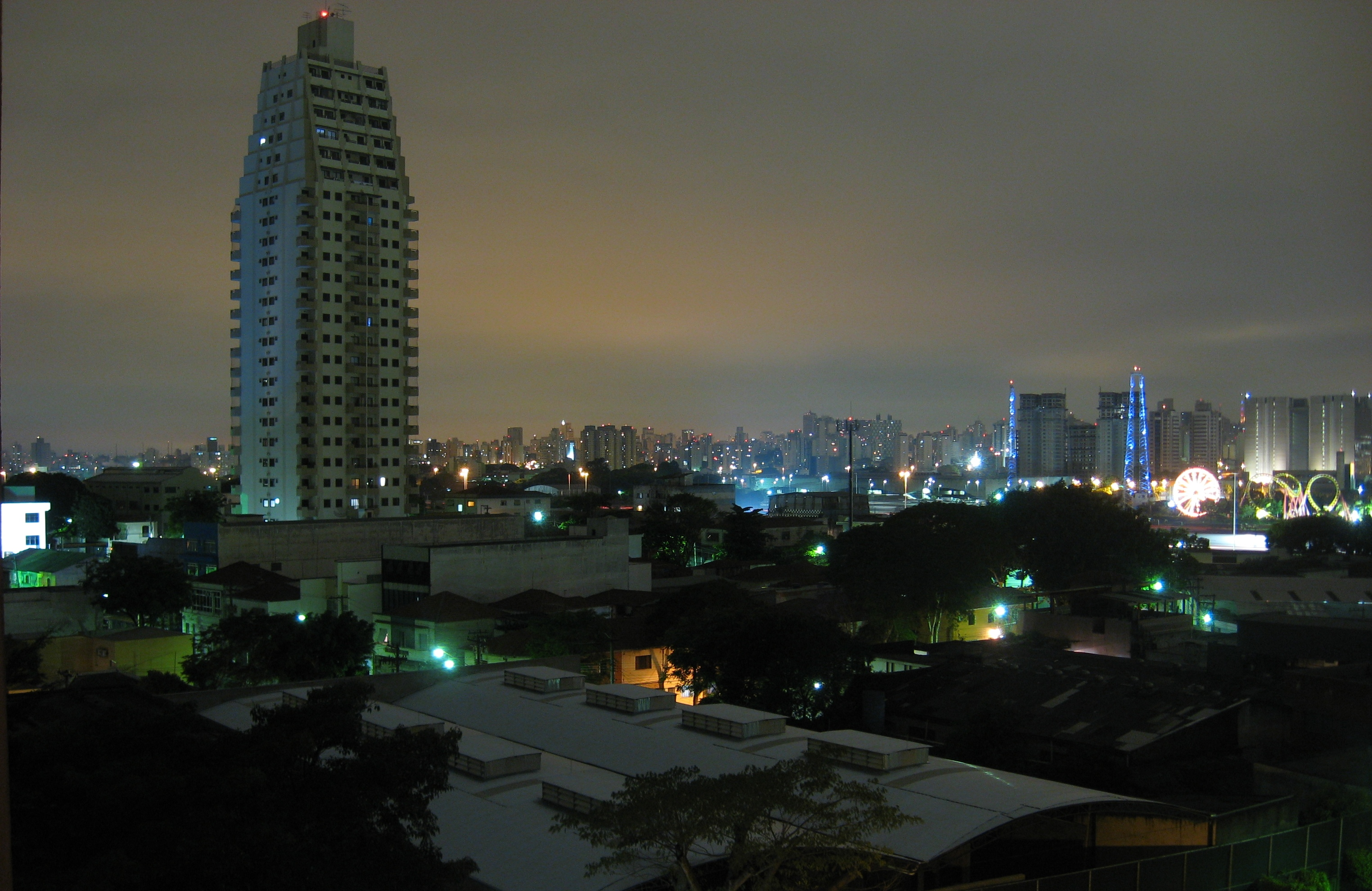 Night view of Casa Verde neighbourhood and downtown, São Paulo City, Brazil.